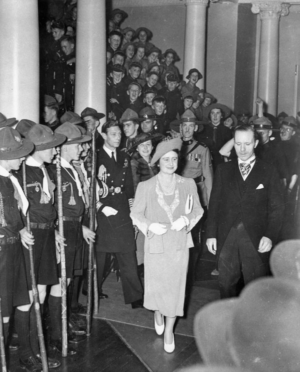 Royal Tour at the Province House. Their Majesties accompanied by Premier Angus Macdonald leaving Province House at the close of the ceremony . Halifax, Canada.